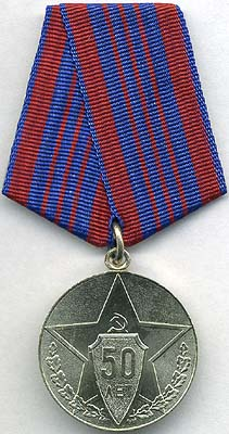 Obverse of the Jubilee Medal "50 Years of the Armed Forces of the USSR".